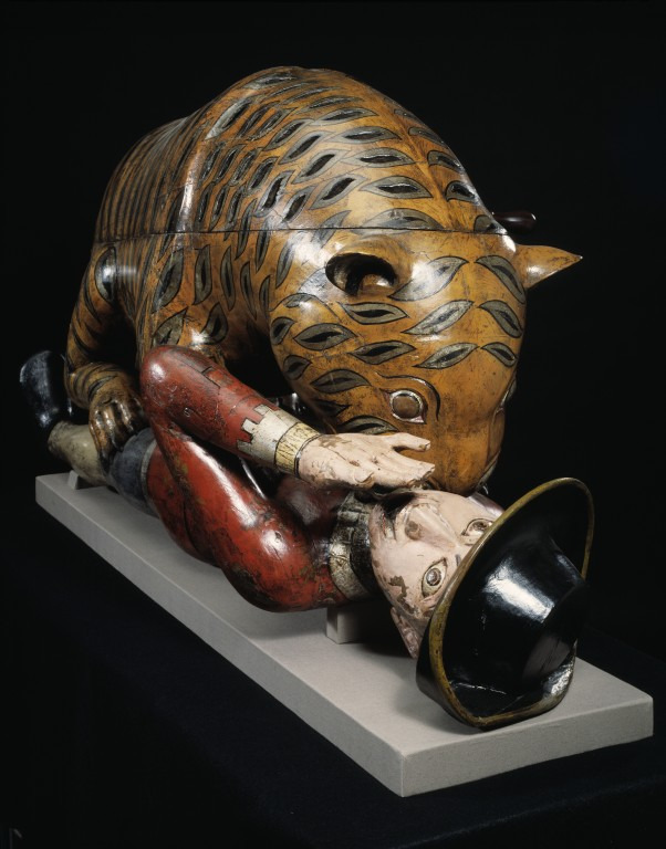 Tippoo's Tiger